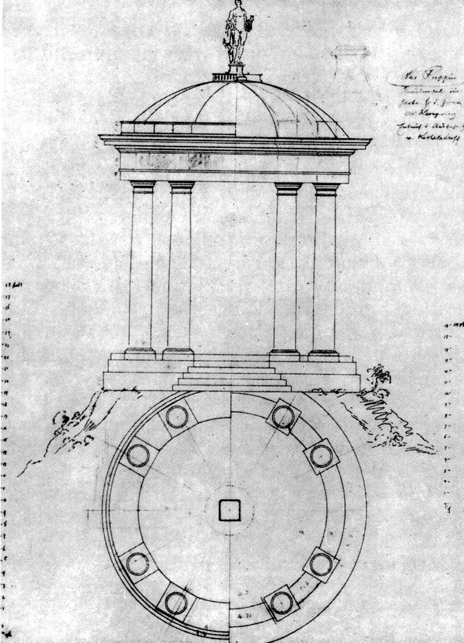 Sketch of the Apollotempel in Neuruppin, Germany.